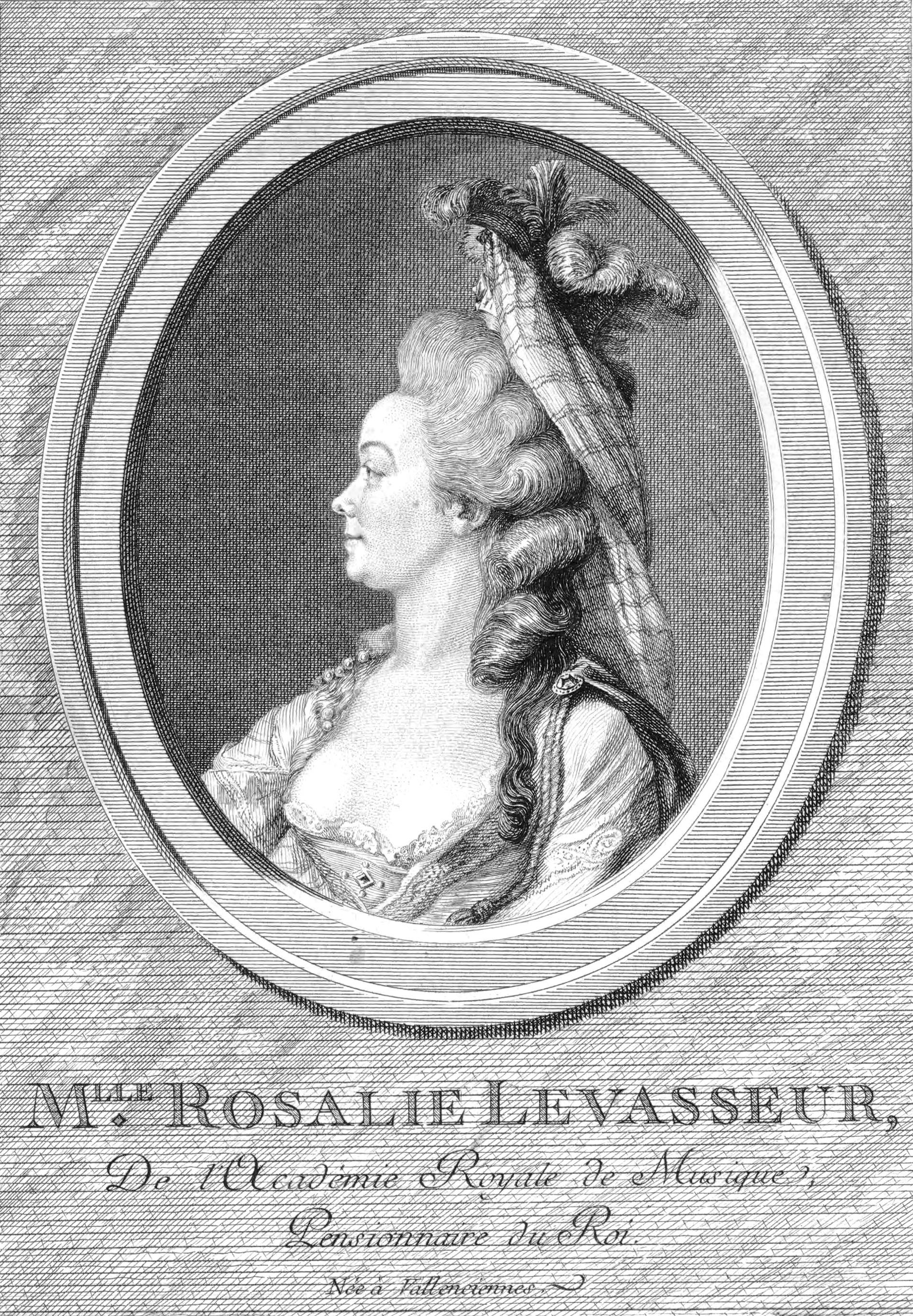 Portrait of Rosalie Levasseur (1749–1826), a French operatic soprano